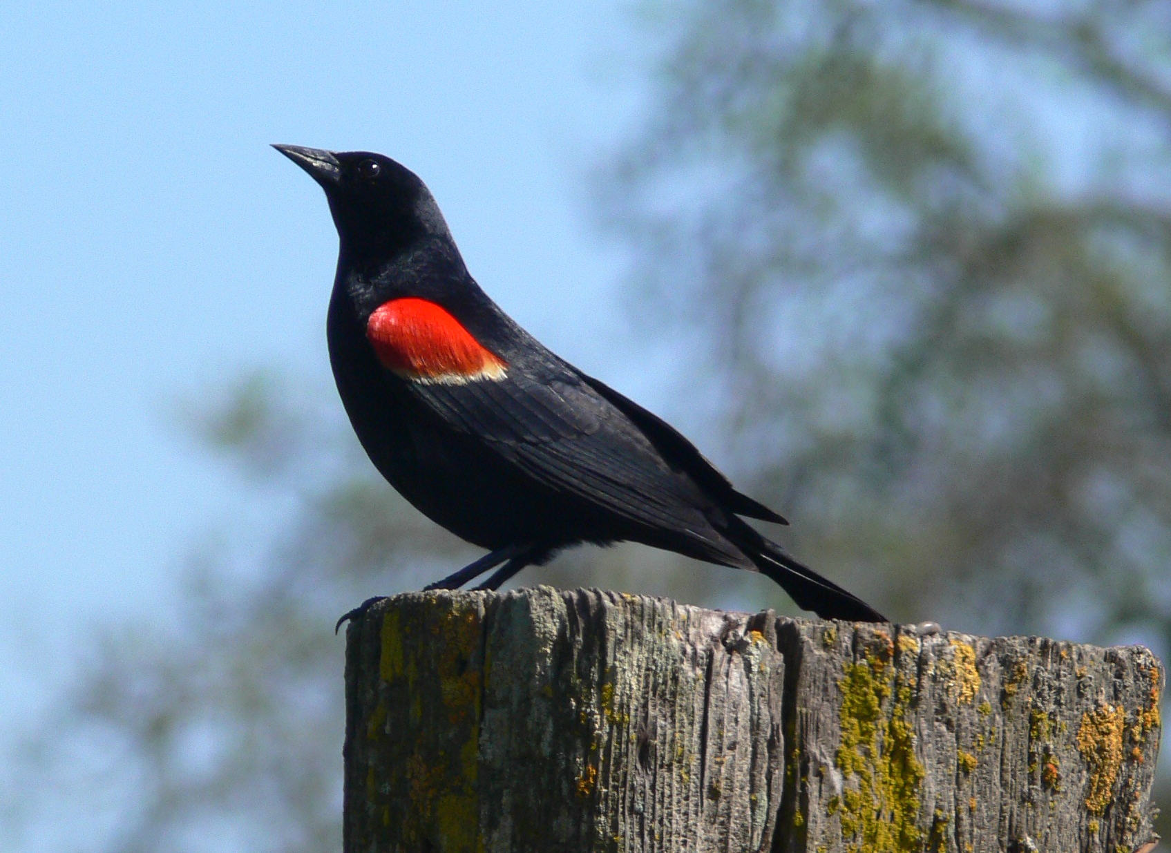 Agelaius phoeniceus male Red-Winged Blackbird